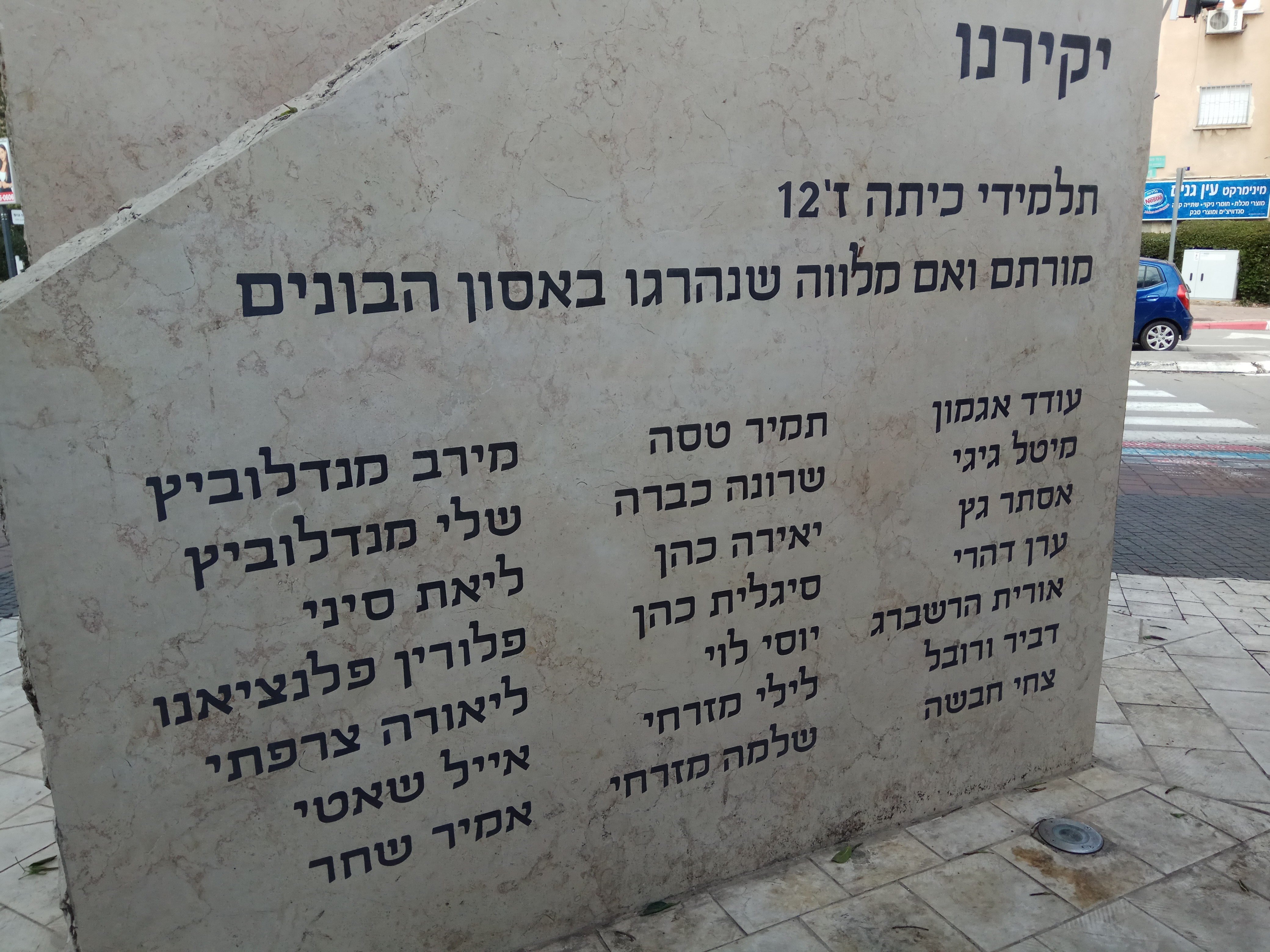 Monument to the Habonim disaster in Petach Tikva